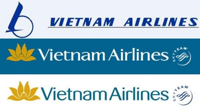 Add new logo